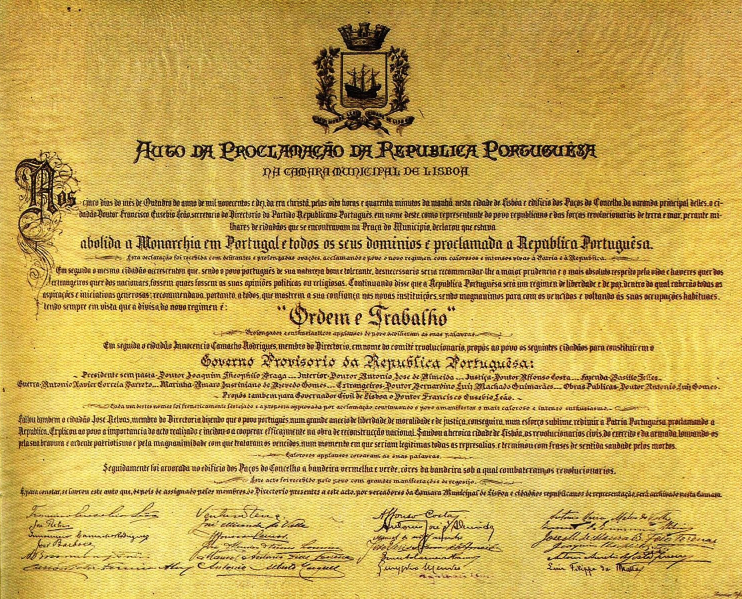 Official document attesting the Proclamation of the Republic in Portugal (1910).